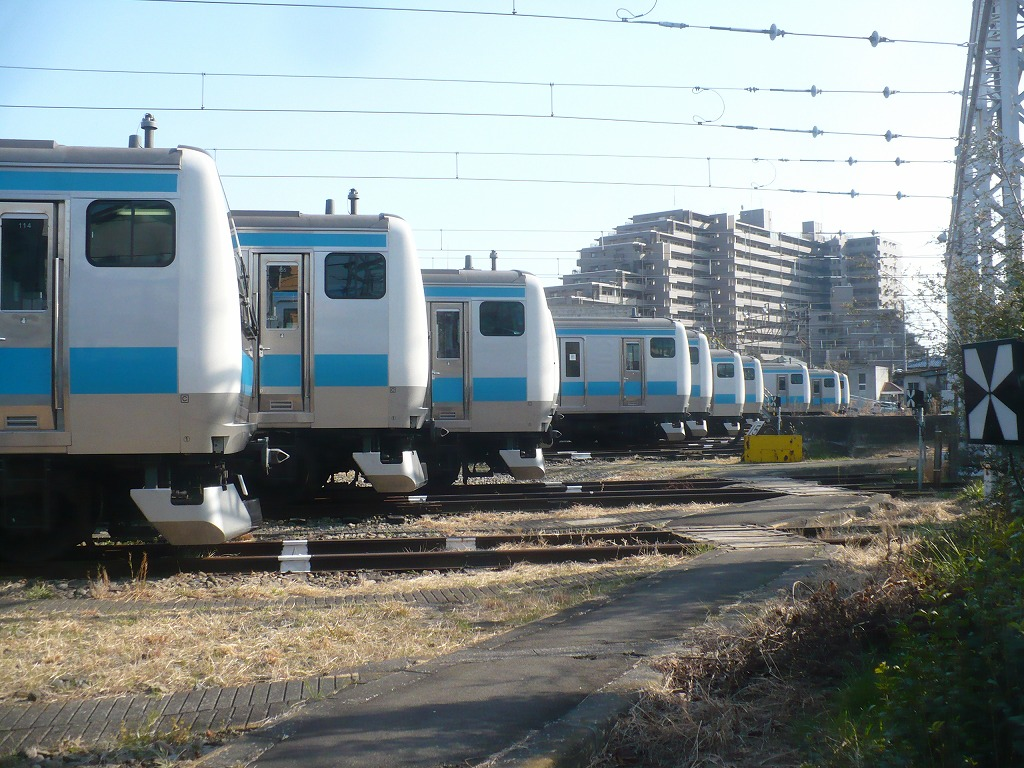 Kamata Electric Car Depot